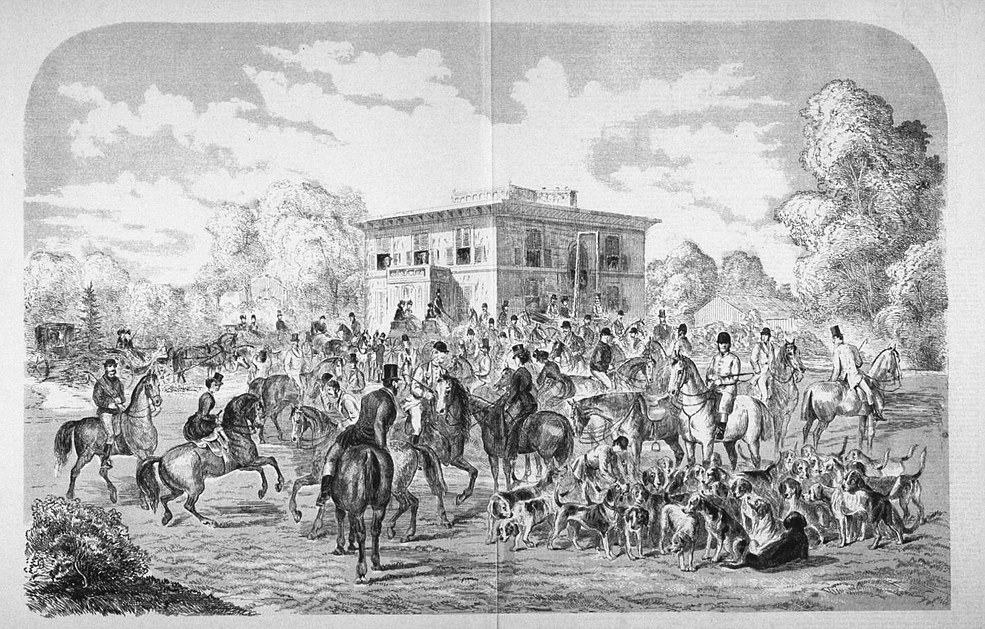 Montreal Fox-Hounds-Verdun Lower Lachine Road, 1870